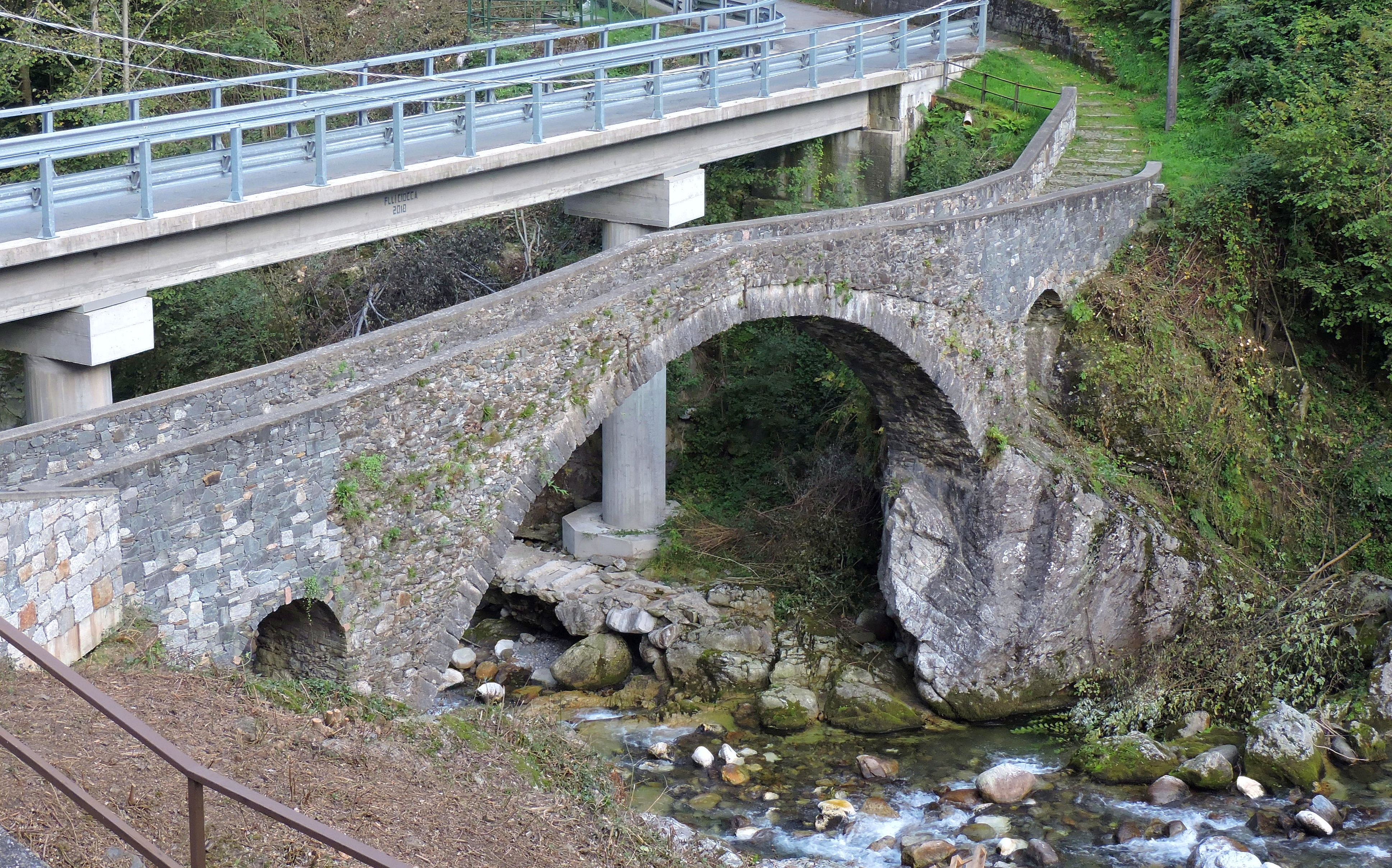 Fornero (Valstrona, Italy): bridges on the Strona